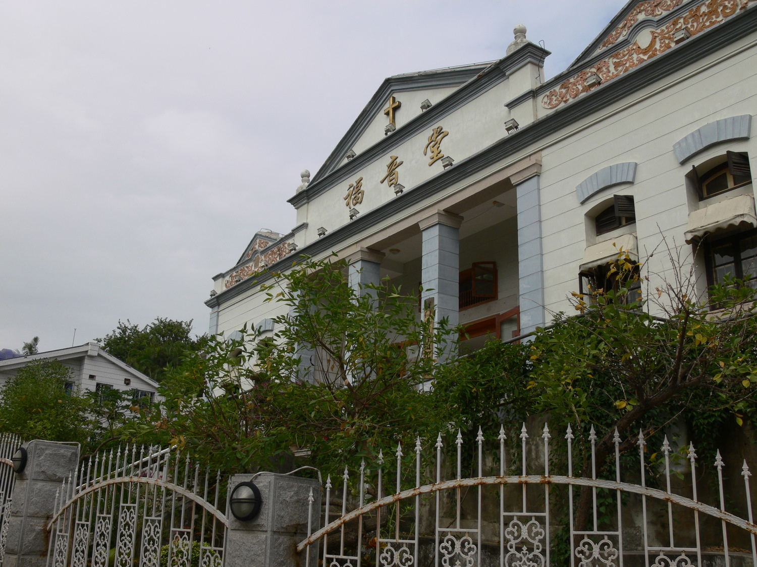 Church in Gulangyu